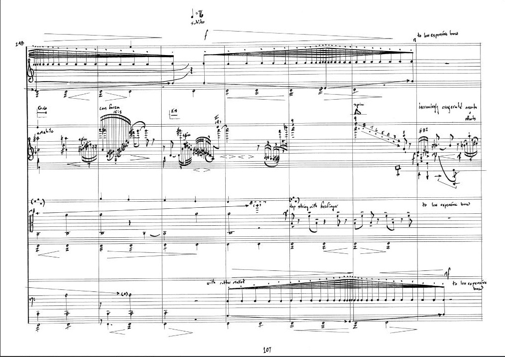 Michael Edward Edgerton_#64_String Quartet#1; mmt5, p107